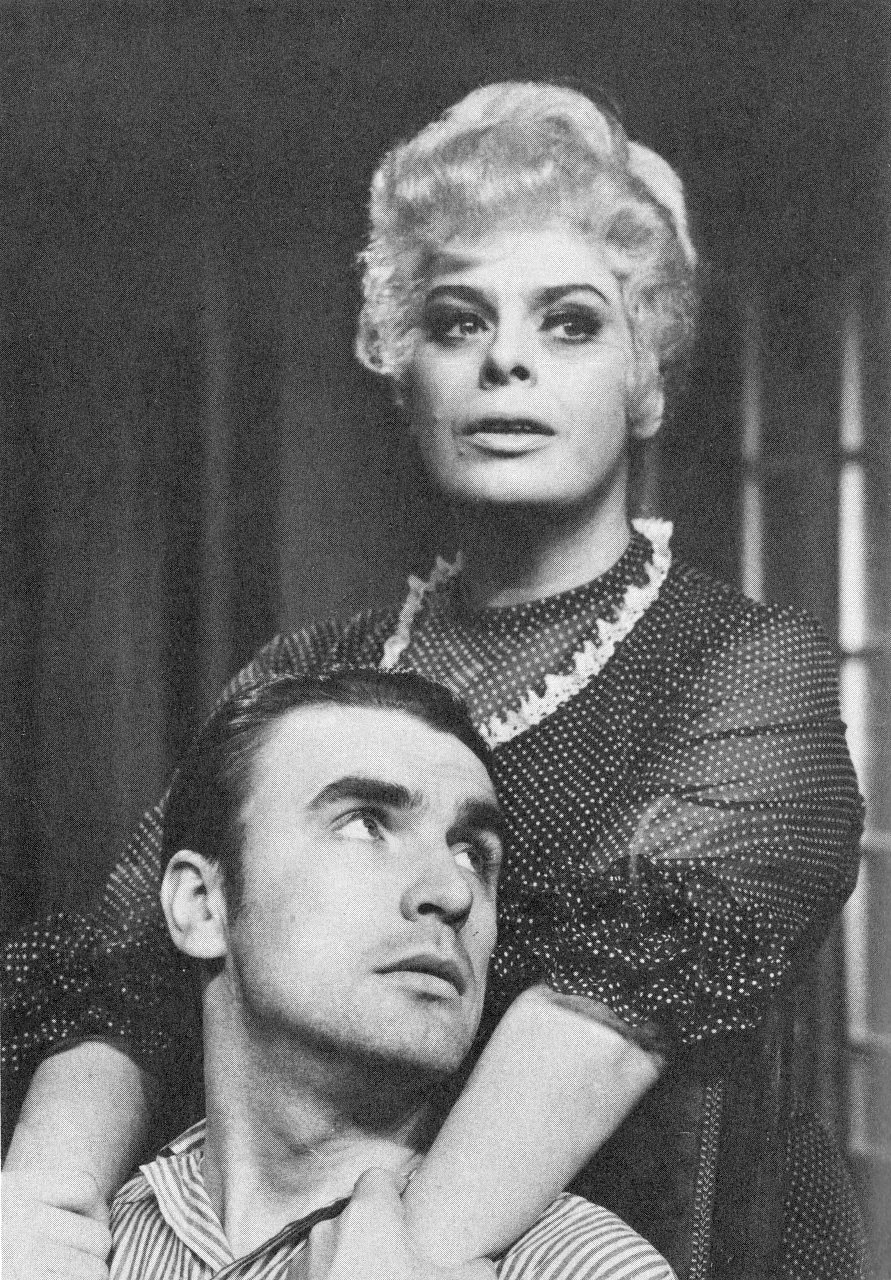 Publicity photograph of the Finnish actors Kirsti Ortola (as Mary) and Ismo Kallio (as Edmund) in a production of Long Day’s Journey into Night by Eugene O’Neill in Helsinki.